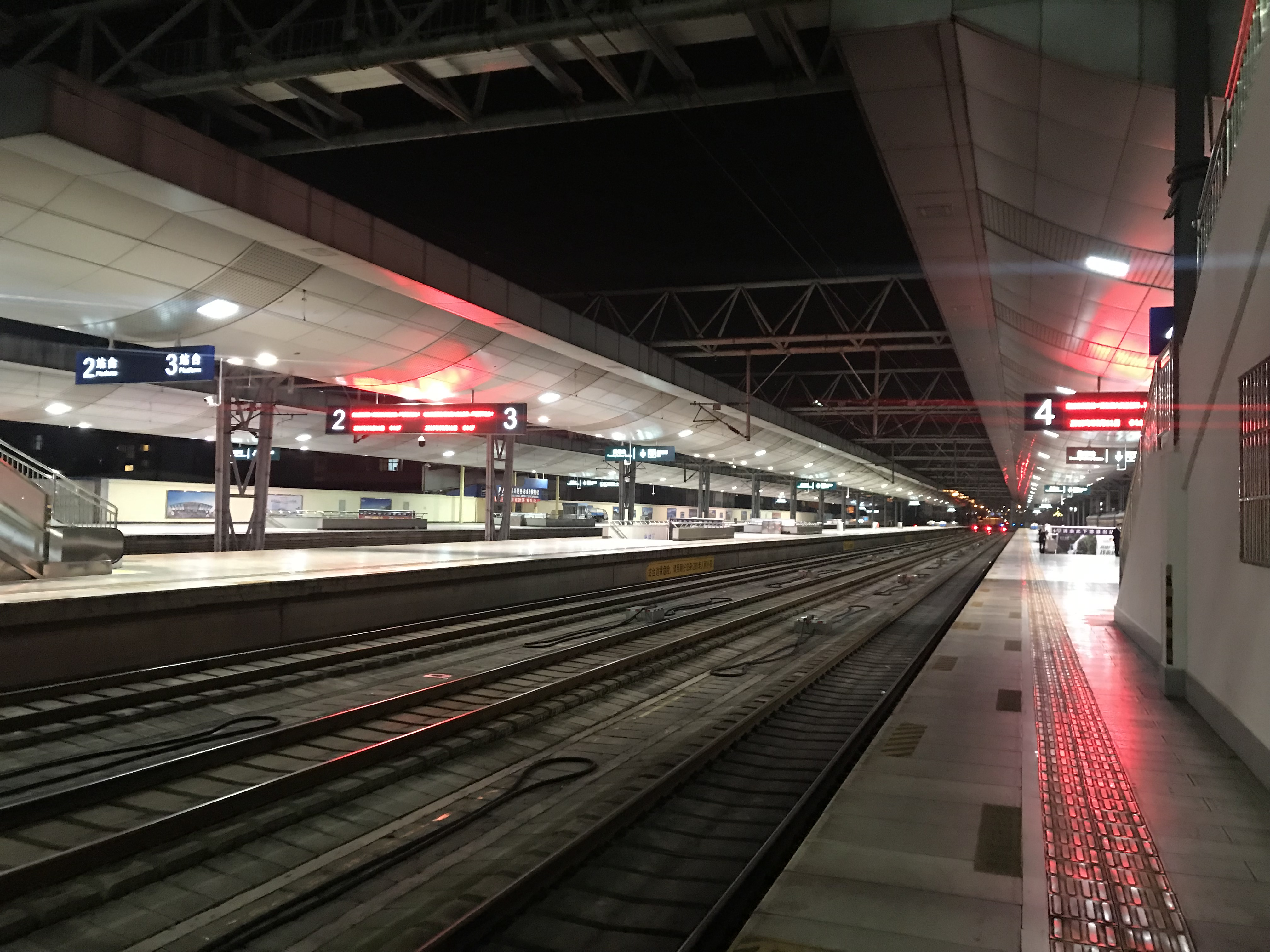 201908 Platforms of Kunming Station